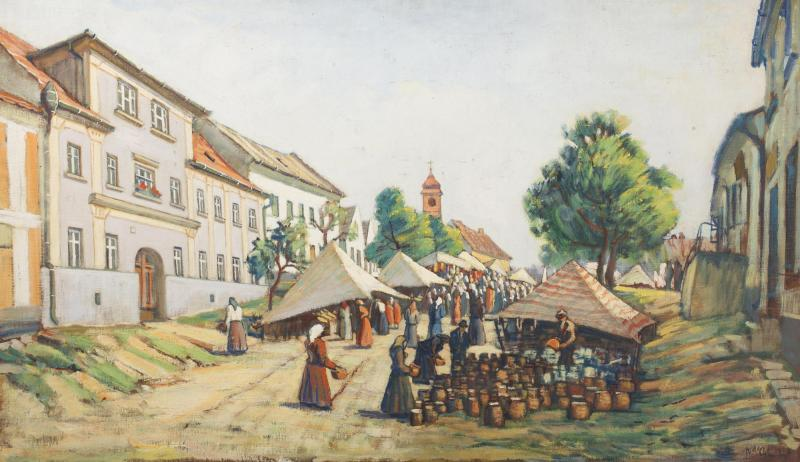 The Market in Návsi